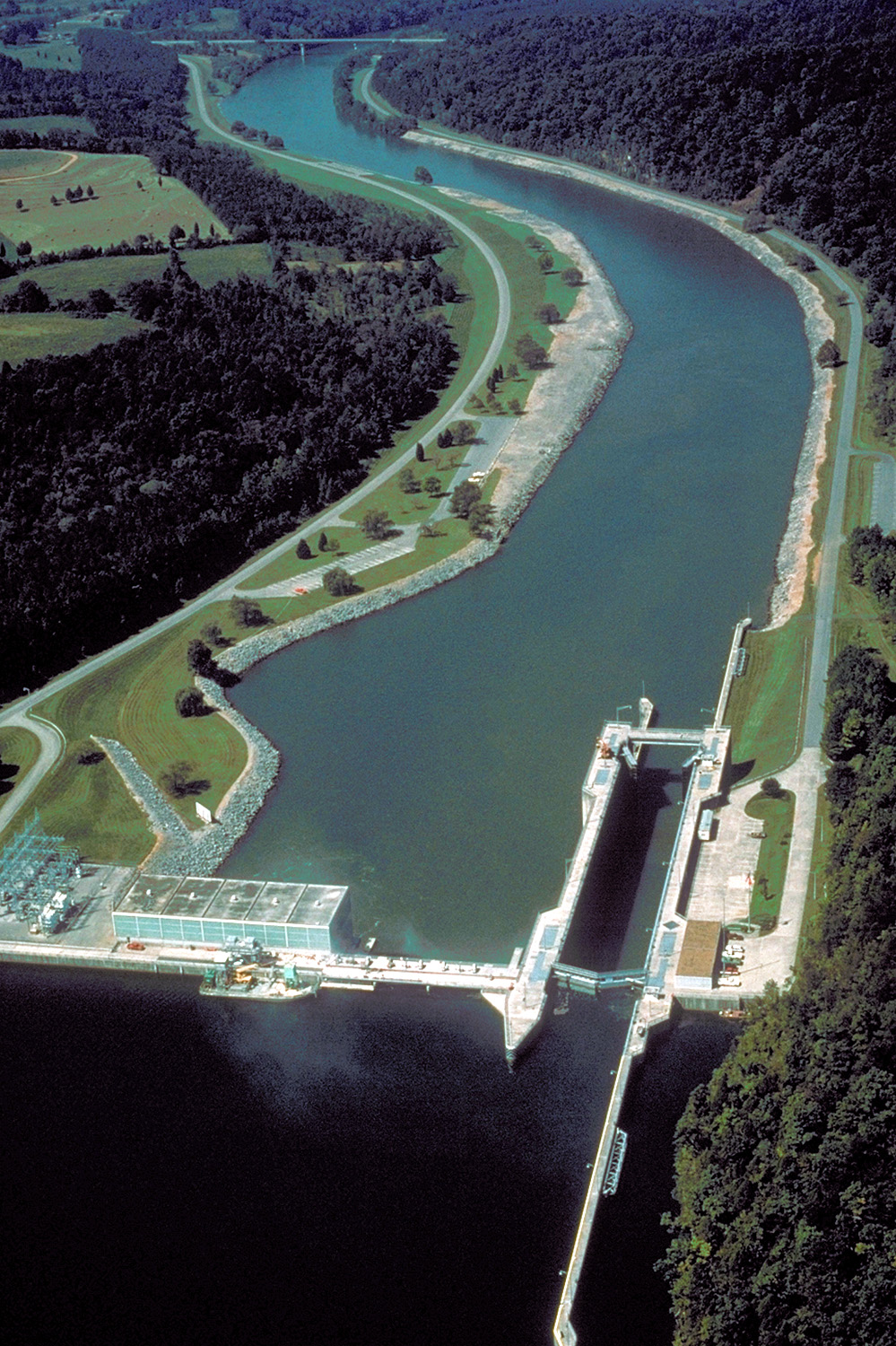 Melton Hill Lock and Dam on the Clinch River at Oak Ridge, Tennessee, USA. The dam is operated by the Tennessee Valley Authority and the lock is operated by the U.S. Army Corps of Engineers.